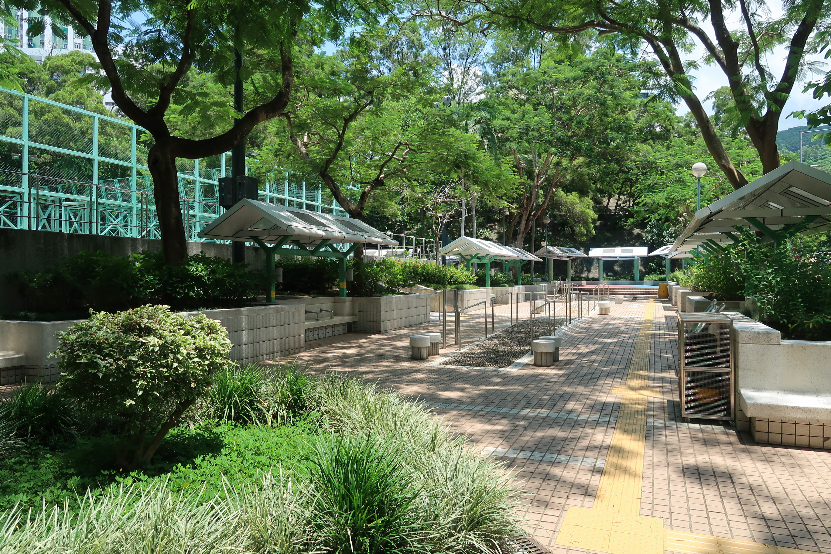 Tsuen King Circuit Recreation Ground and Rest Garden